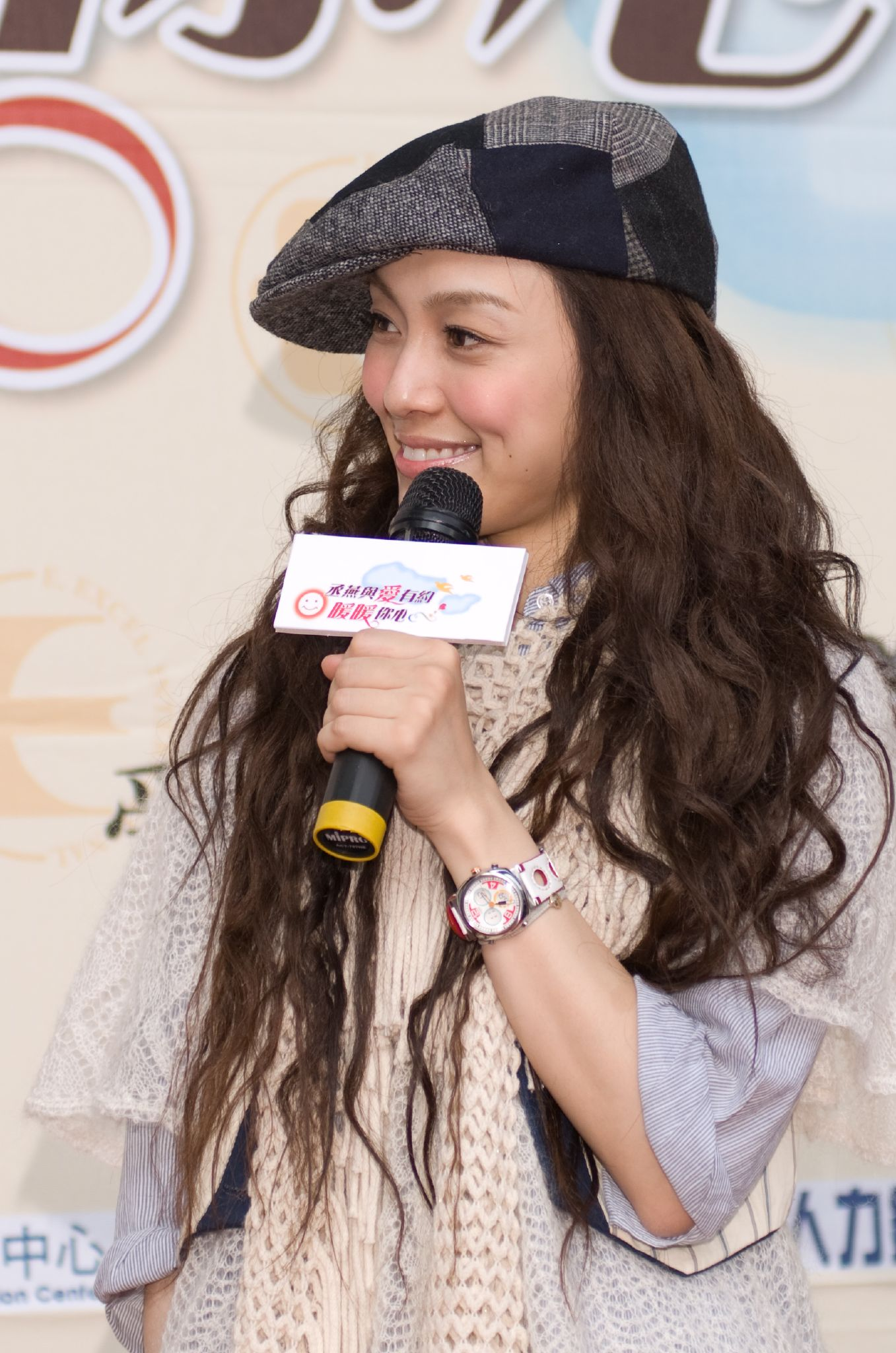 Christine Fan's picture